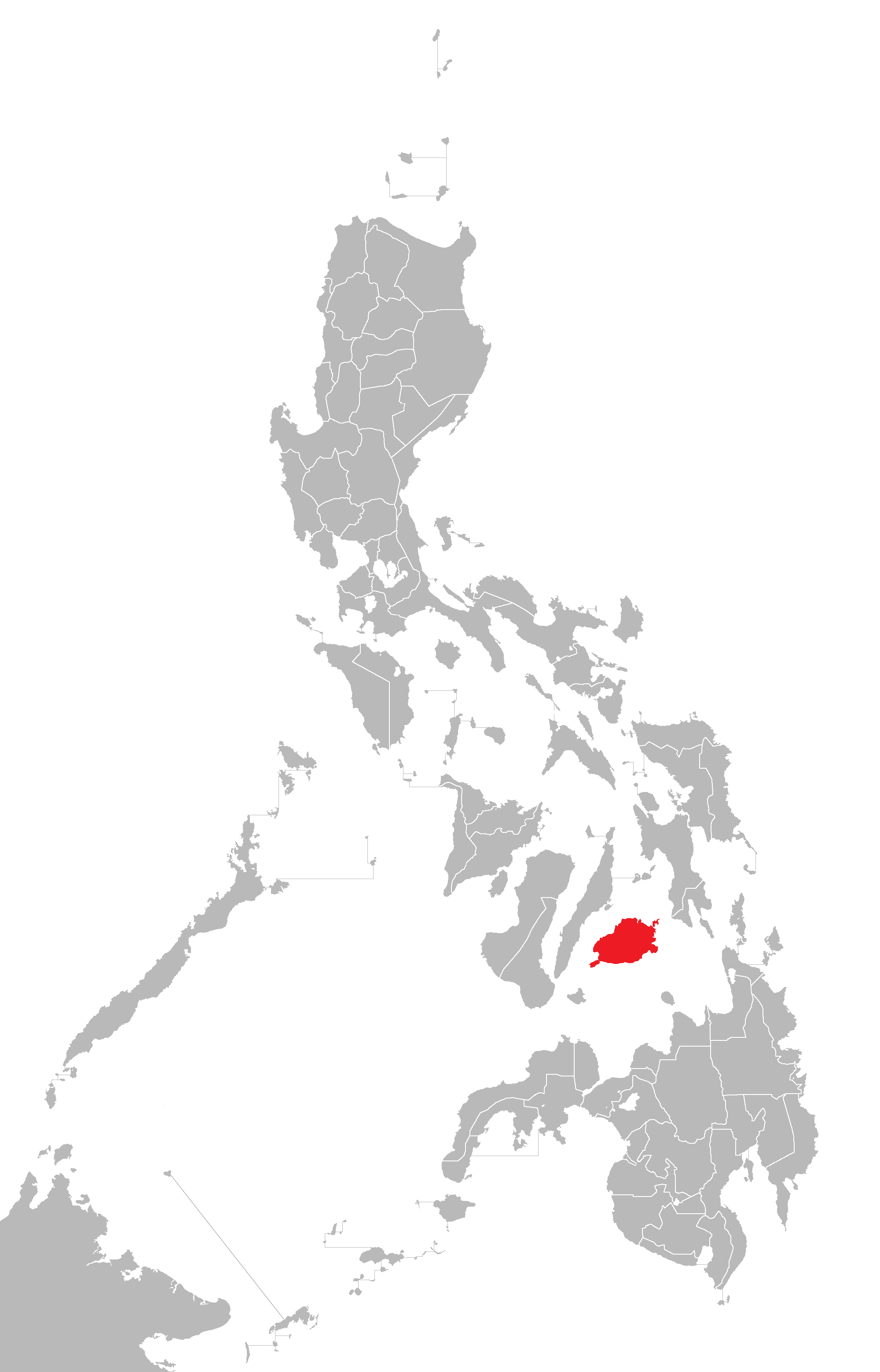 Derived from File:BlankMap-Philippines.png Map of Bohol Island In red